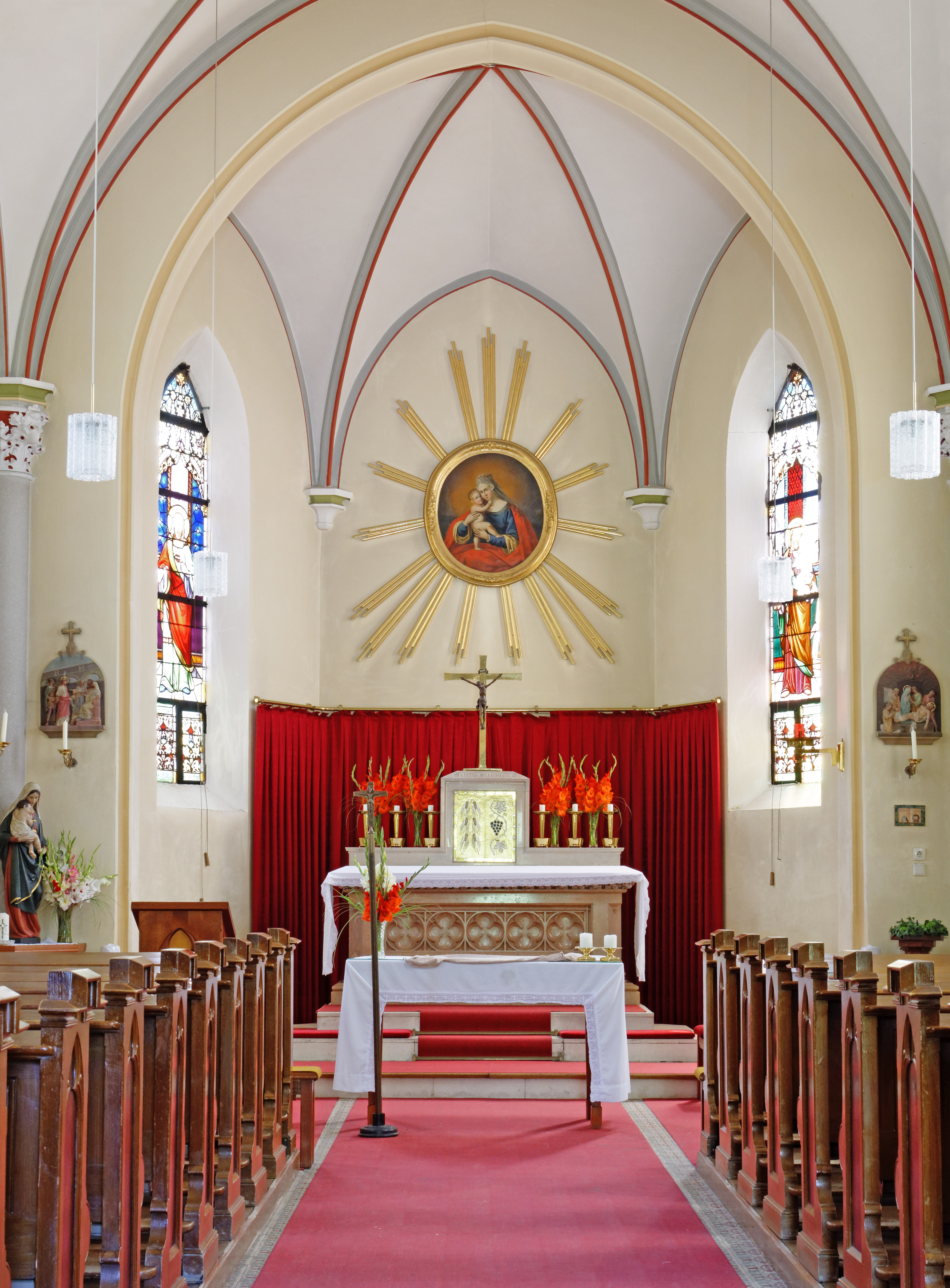 Altar of the catholic succursal church at Neuruppersdorf, Municipality Wildendürnbach, Lower Austria, Austria